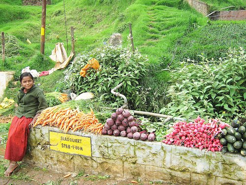 Ooty, India.